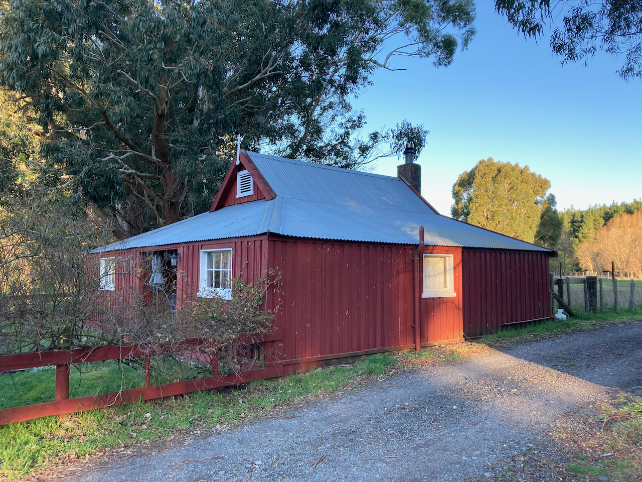 Farm building now known as the "Gamekeeper's Cottage" on the grounds of Longwood Homestead. Longwood, built in 1906 for Charles Buckland Pharazyn (1868–1938), architect Henry Swan. Replaced the original Longwood homestead built in 1857. Owned by the Riddiford family 1911–1989.